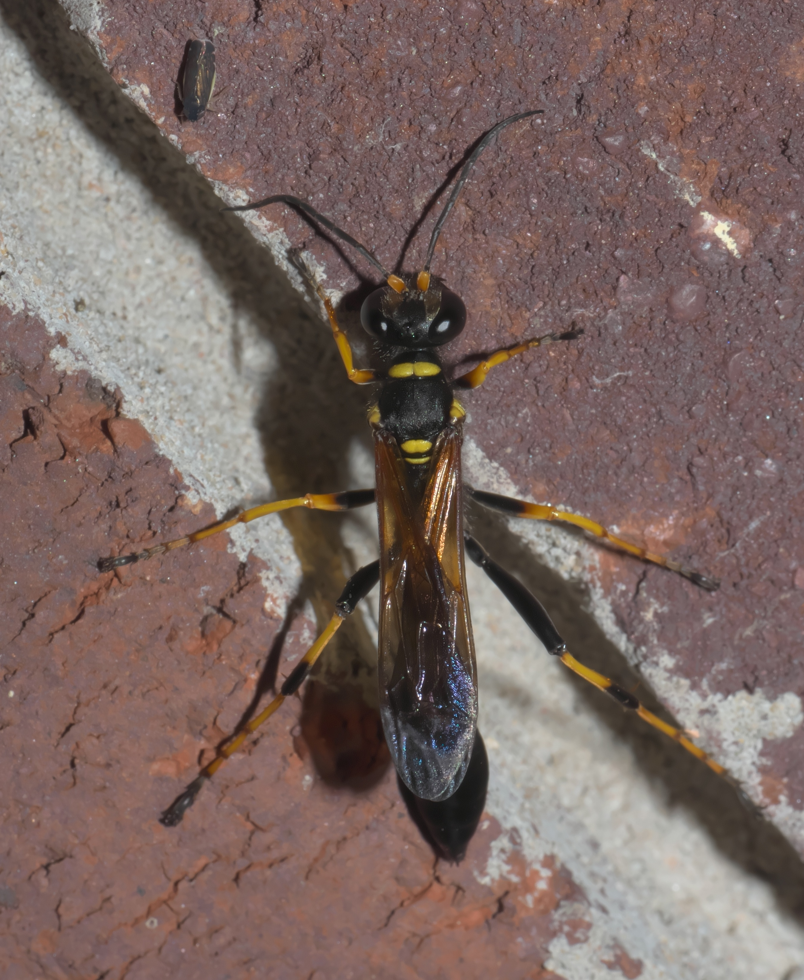 Sceliphron caementarium, black and yellow mud dauber, ID Confidence: 90